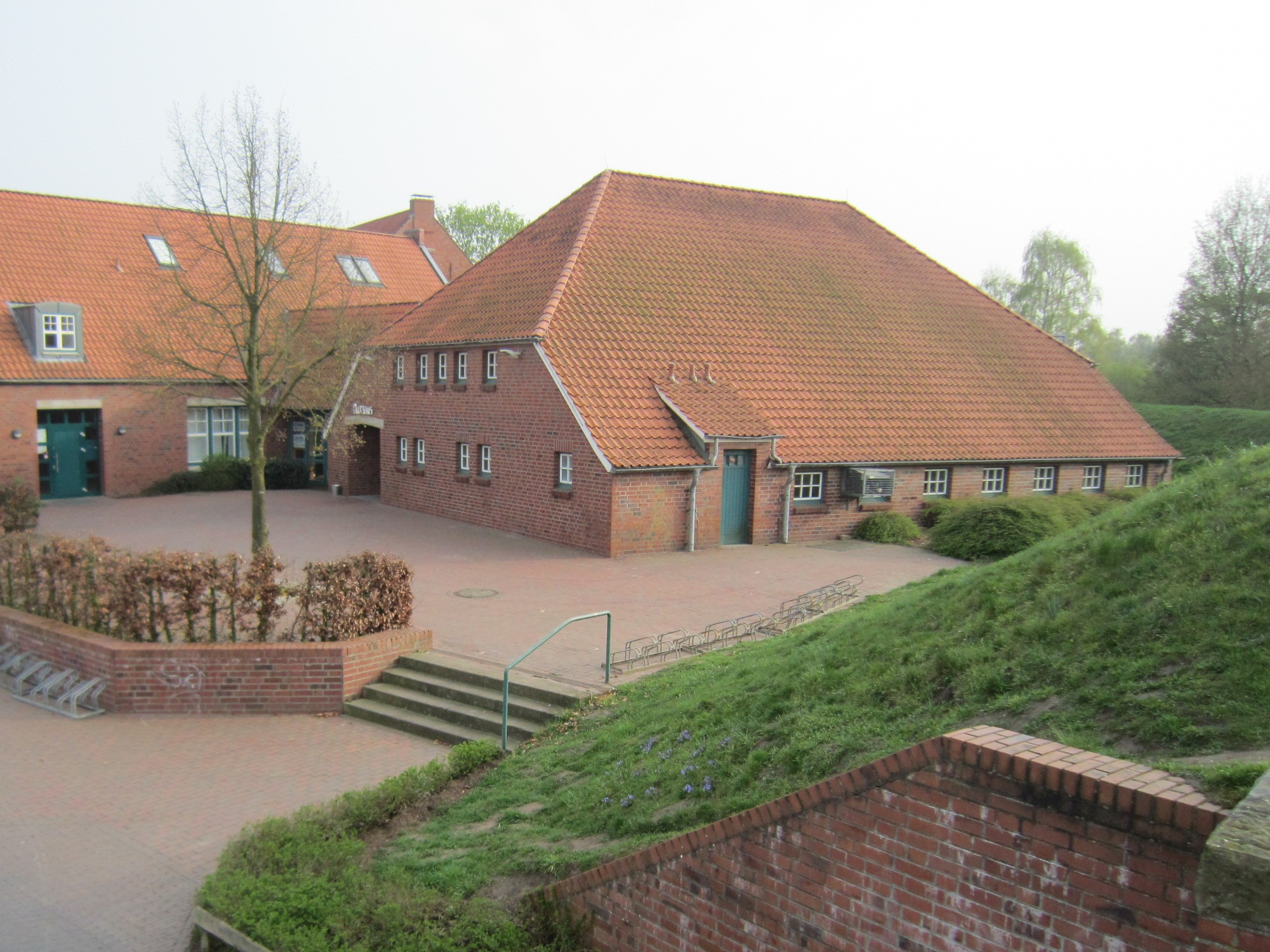 Youth Center "Gulfhaus" in Vechta